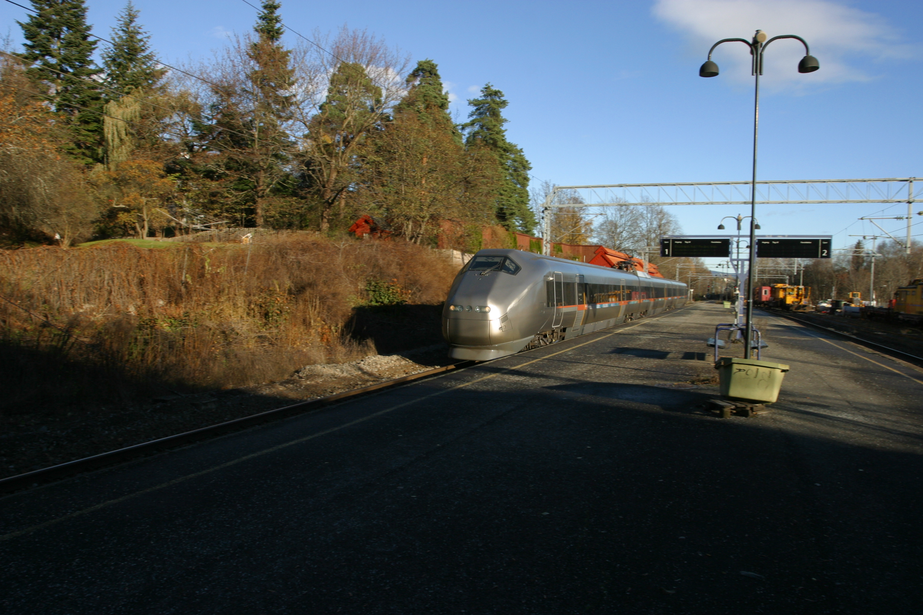 Picture of the Airport Express Train passing Høvik Railway Station (Norway)